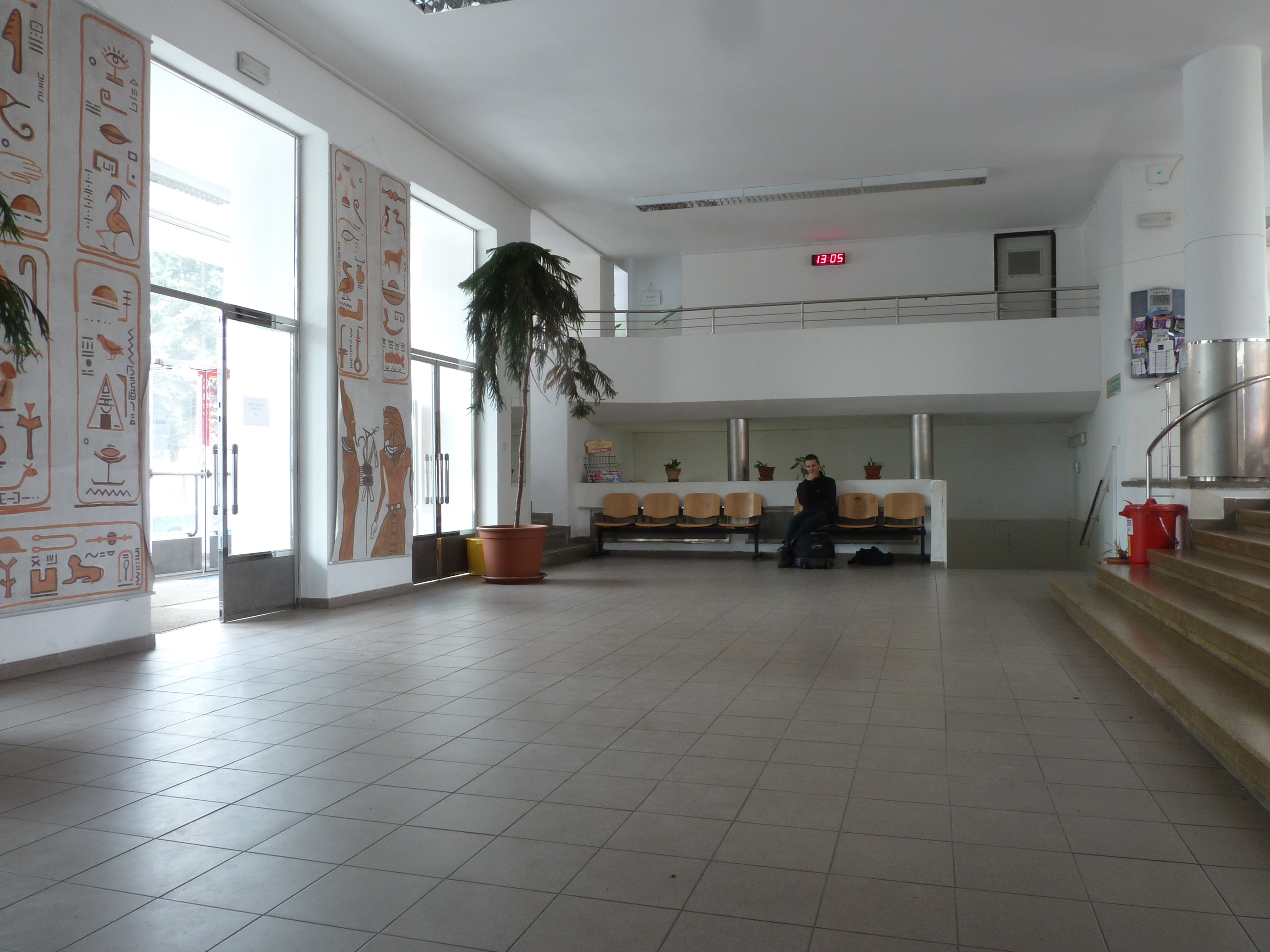 Gymnázium Budějovická, Prague – atrium